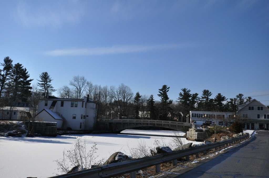 The bridge carrying NH Route 114 over the Piscataquog River in the center of Goffstown, New Hampshire. Visible in front of the bridge are the bridge abutments that formerly supported the Goffstown Covered Railroad Bridge (which was destroyed by fire in 1976).